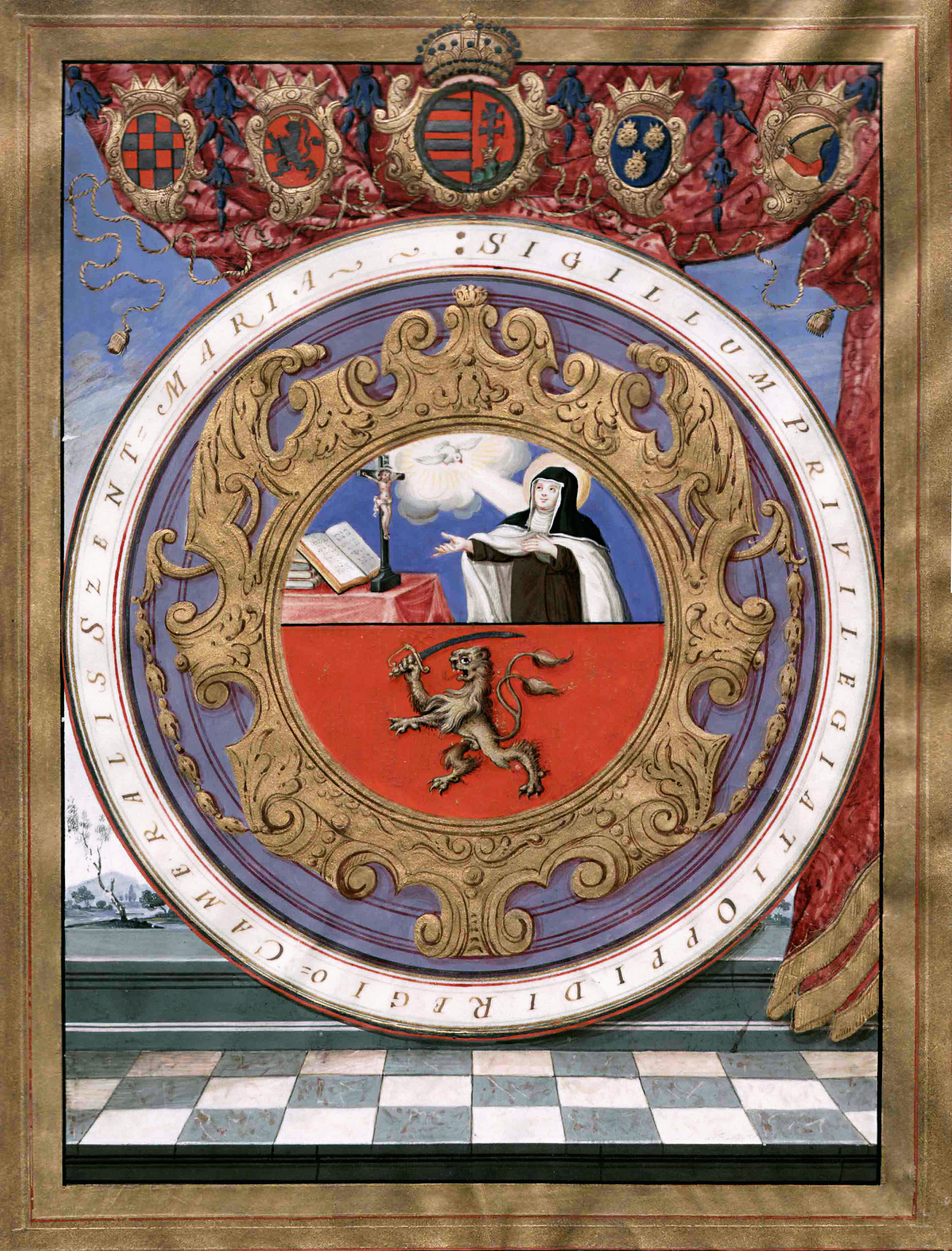 The Coat of Arms of Subotica as it appears in the Charter of Privileges given by Maria Theresa in 1743. Height: 35 cm